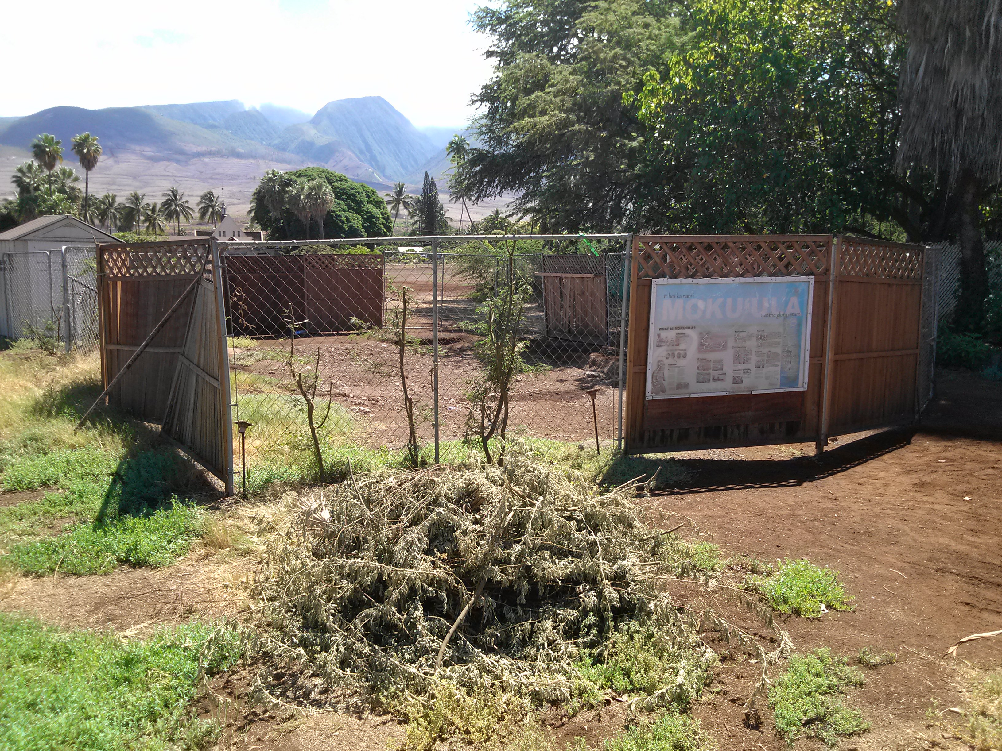 Mokuʻula excavation site.